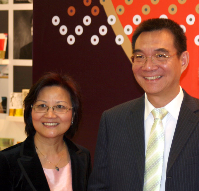 Justin Yifu Lin and his wife at the Frankfurt Bookfair 2009